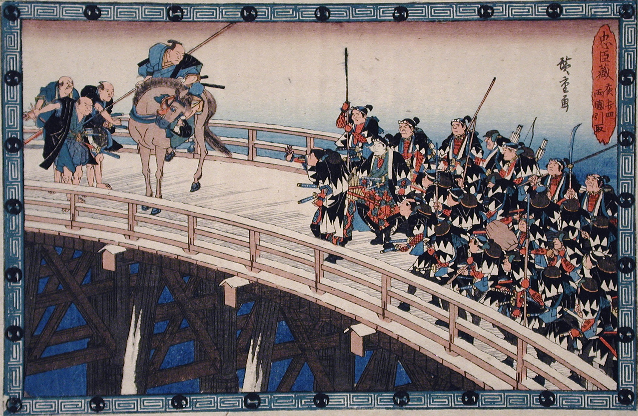 Japan, circa 1835-1839 Series: The Storehouse of Loyal Retainers Prints; woodcuts Color woodblock print Image: 9 3/16 x 14 in. (23.3 x 35.6 cm); Sheet: 10 x 14 5/16 in. (25.4 x 37.8 cm) Gift of Dr. Harvey Eagleson (M.66.35.60) Japanese Art